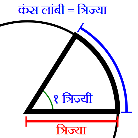 information about radian in marathi